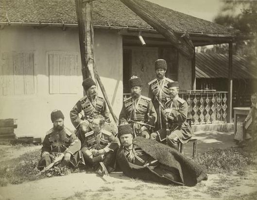 Convoy of His Imperial Highness. Image text: Konvoi Ego Imperat. Velichestva.